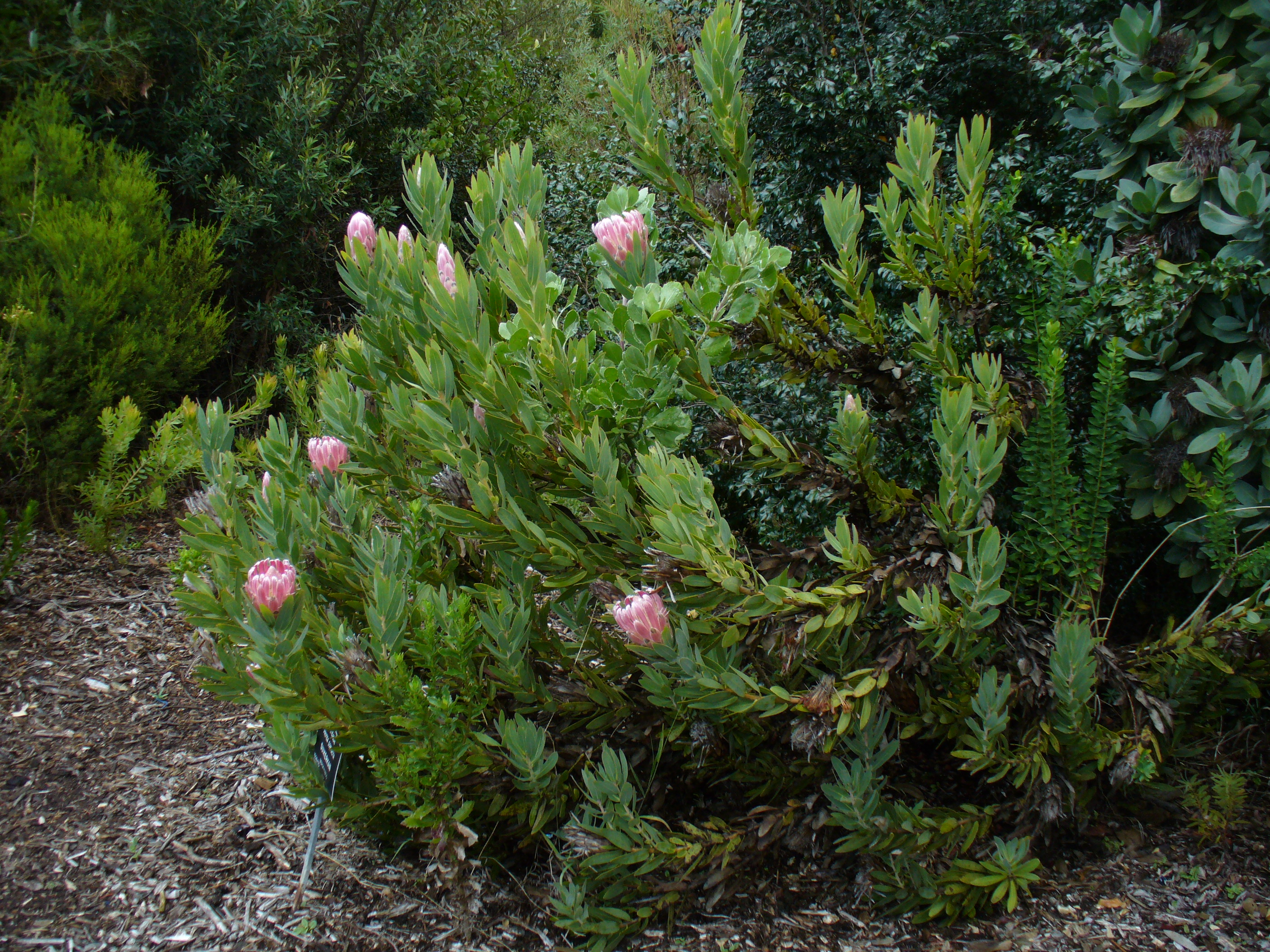 Protea compacta bush